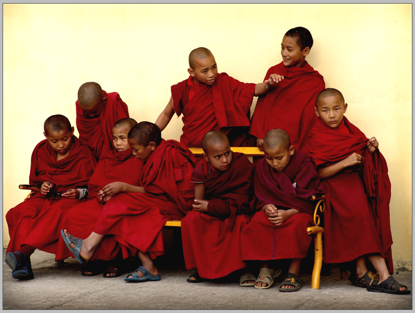 Explore-D from Rinchenpong, another monastery; unlike the Soreng monastery this was huge.